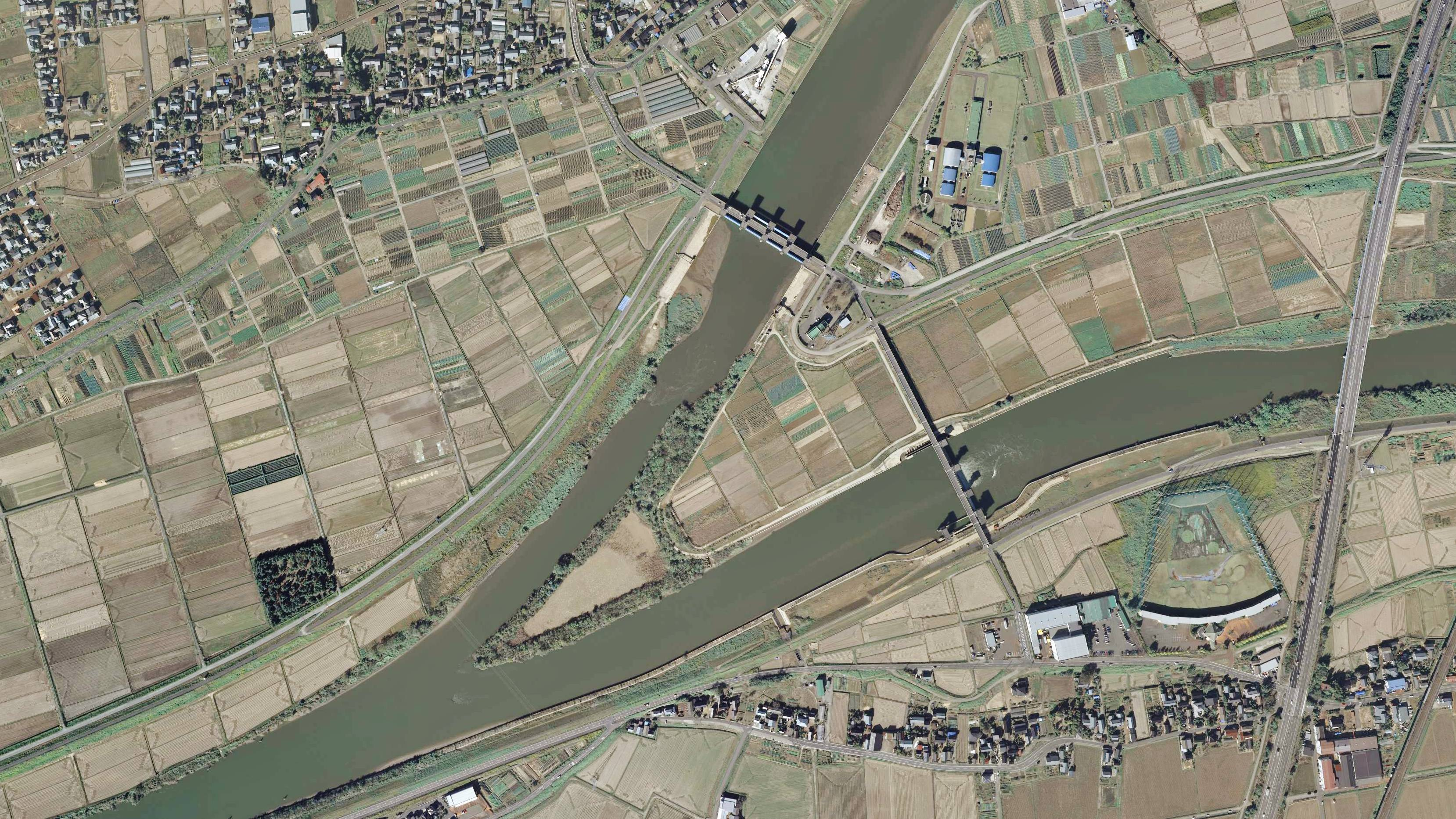 Kanbara Ōzeki (Sanjō, Niigata) and Nakanokuchi River Sluice (Tsubame, Niigata).